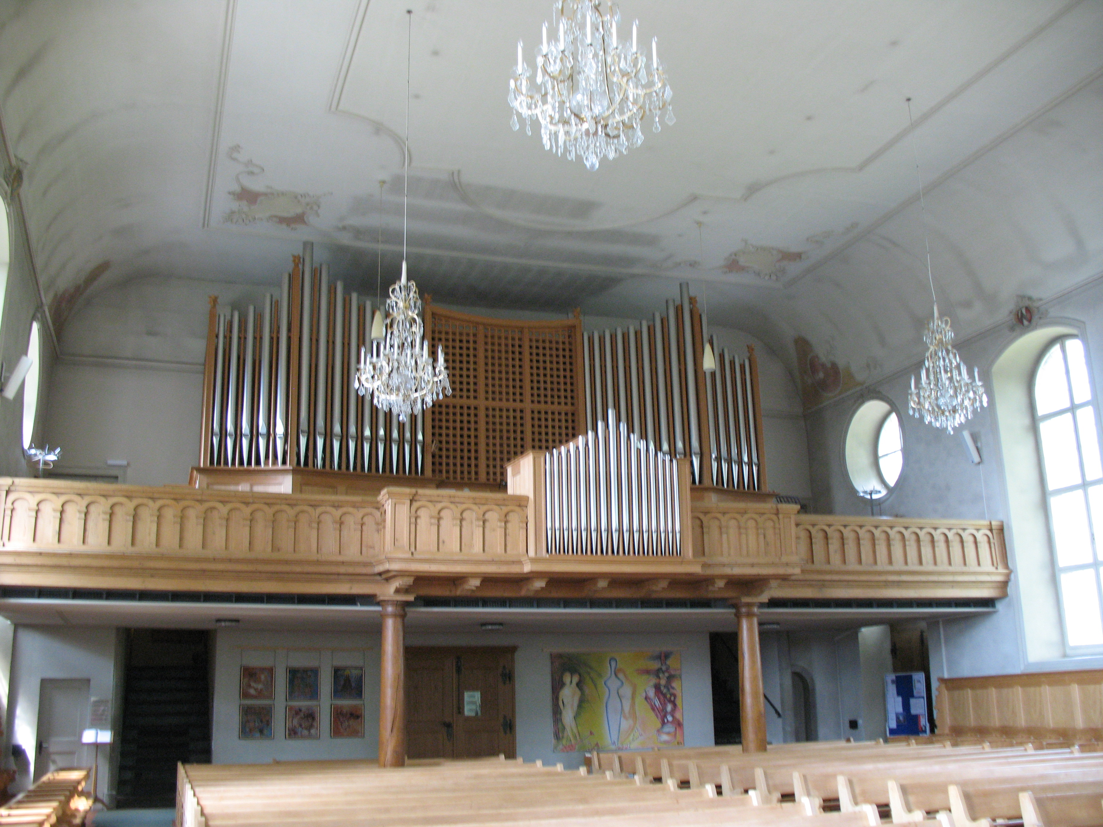 City Church, Thun, Switzerland